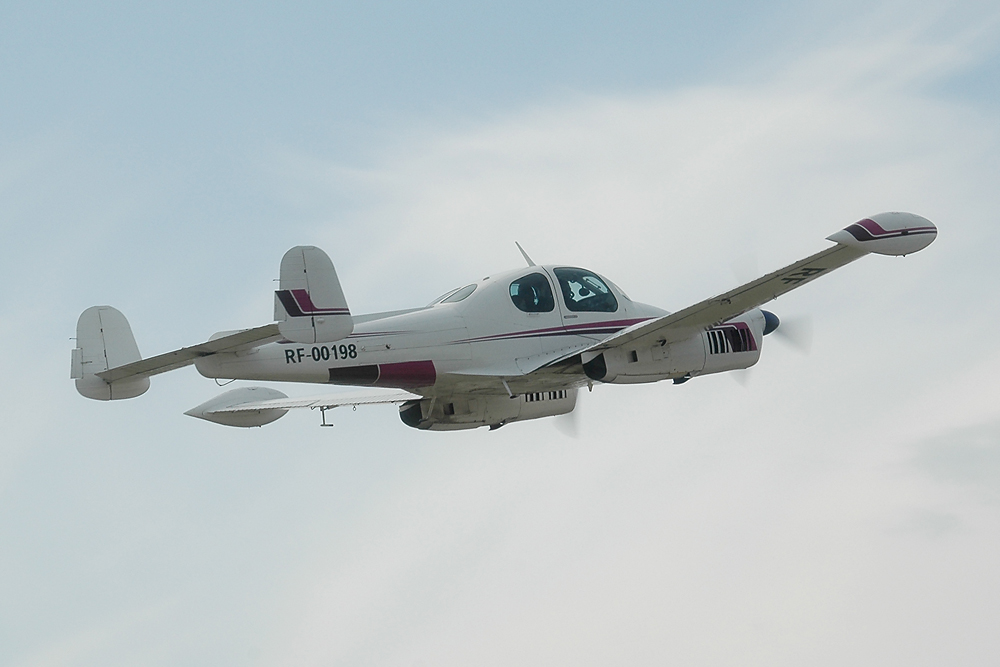 Let L-200 Morava Author: Dmitry A. Mottl email: dm_at_mottl.ru